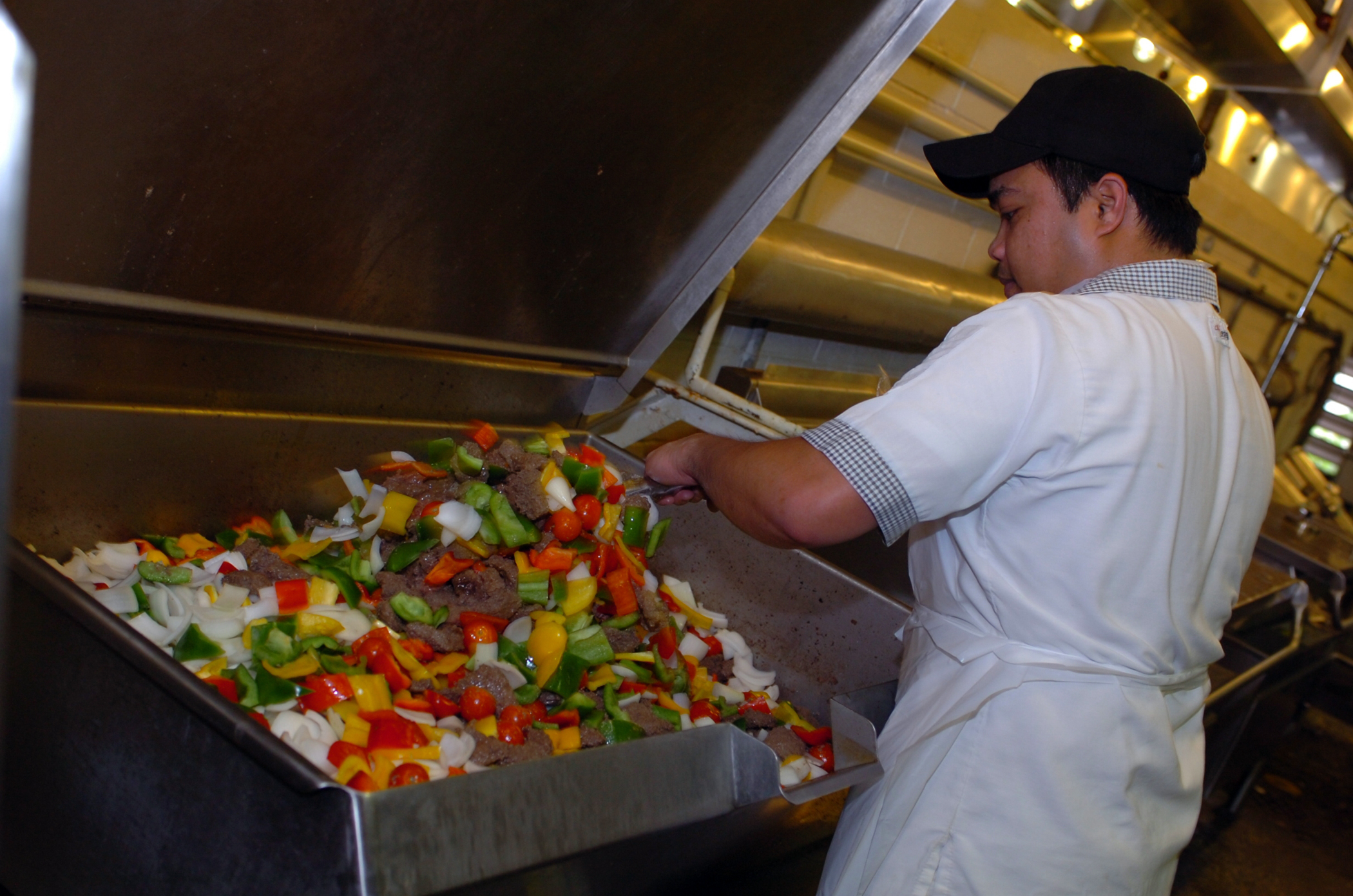 GUANTANAMO BAY, Cuba (Aug. 22, 2008) A food service worker from Joint Task Force Guantanamo's Seaside Galley prepares a special meal, similar to those that will be served during Ramadan. It is traditional for those celebrating the Islamic holy month of Ramadan to observe fasting from sunrise to sundown. JTF Guantanamo conducts safe and humane care and custody of detained enemy combatants. (U.S. Army photo by Army Spc. Megan Burnham/Released)